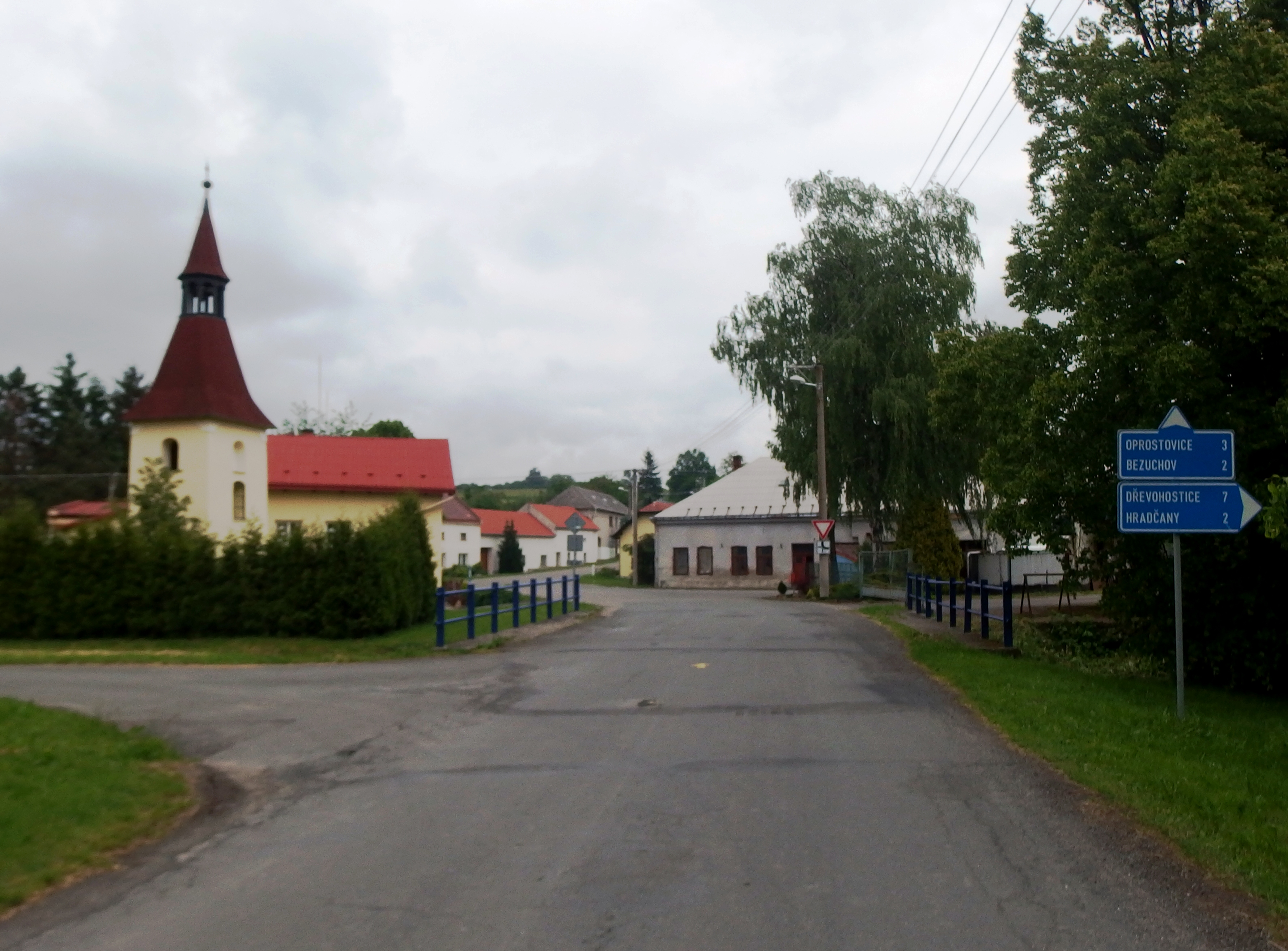 Šišma, Přerov District, Czech Republic.